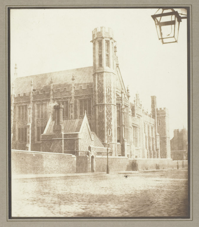 Salted paper print by Henry Fox Talbot